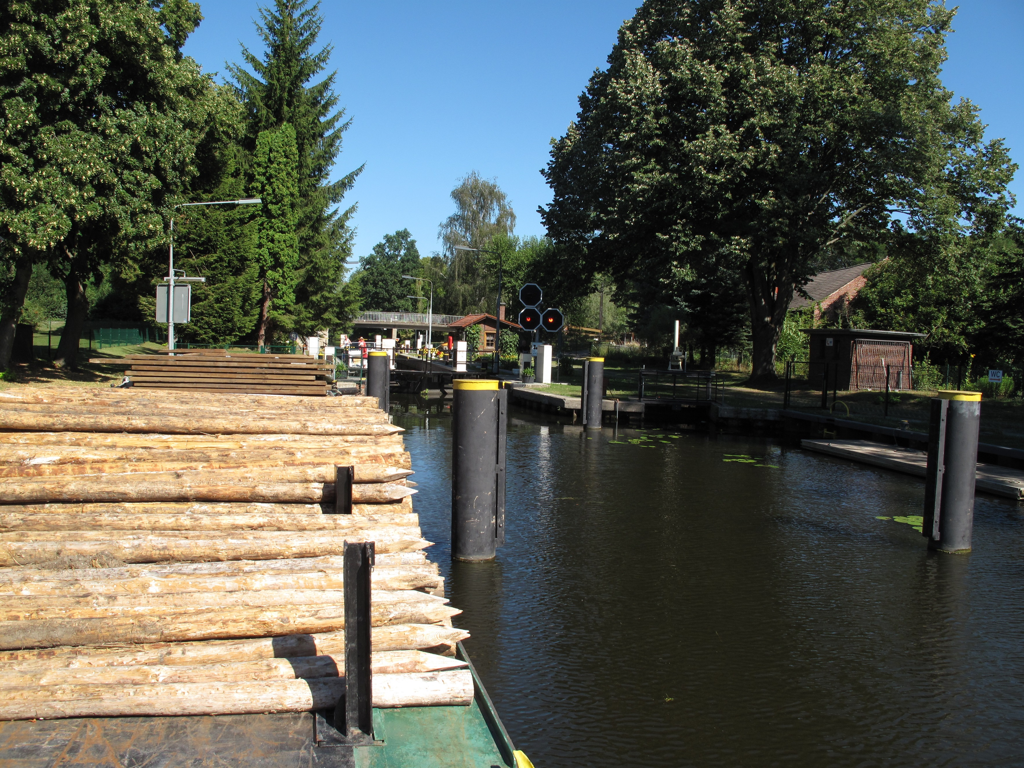 „Schleuse Kummersdorf“, built in 1862, canal lock of the Storkower Kanal. The village Kummersdorf is a part of the town Storkow, District Oder-Spree, Brandenburg, Germany. The village was first mentioned in 1442 and had on January 1, 2013 507 inhabitants. It is situated in the Dahme-Heideseen Nature Park.